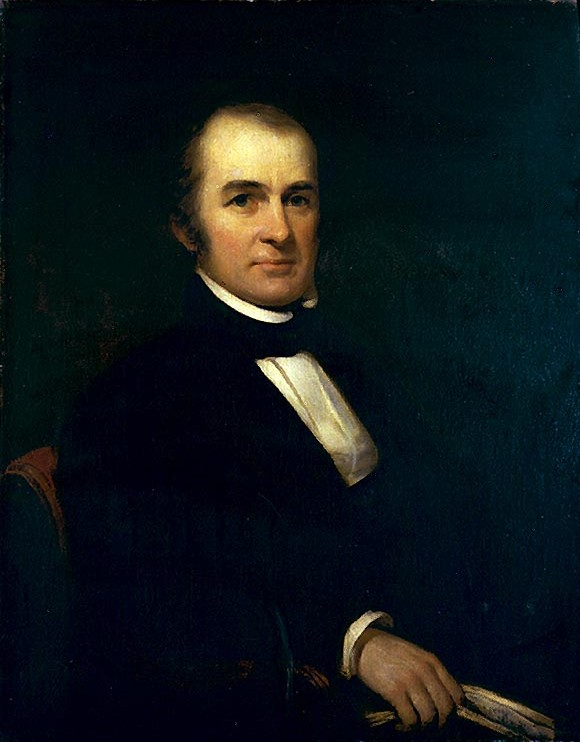 George Edmund Badger, Secretary of the Navy, 6 March 1841 - 11 September 1841